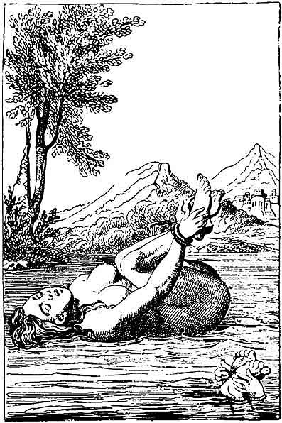 Water-ordeal. Engraving. XVII.